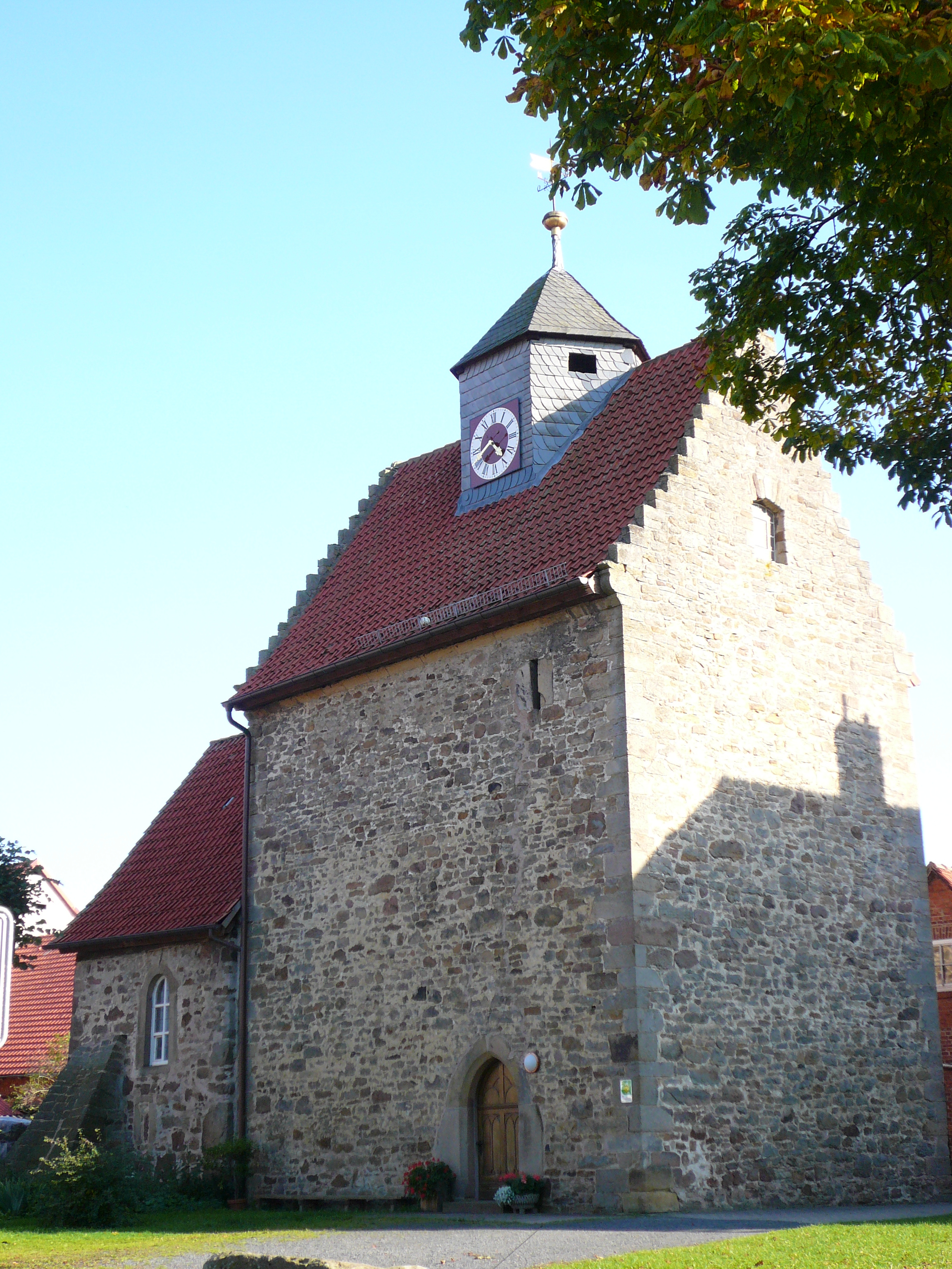 Church in Offensen, Lower Saxony